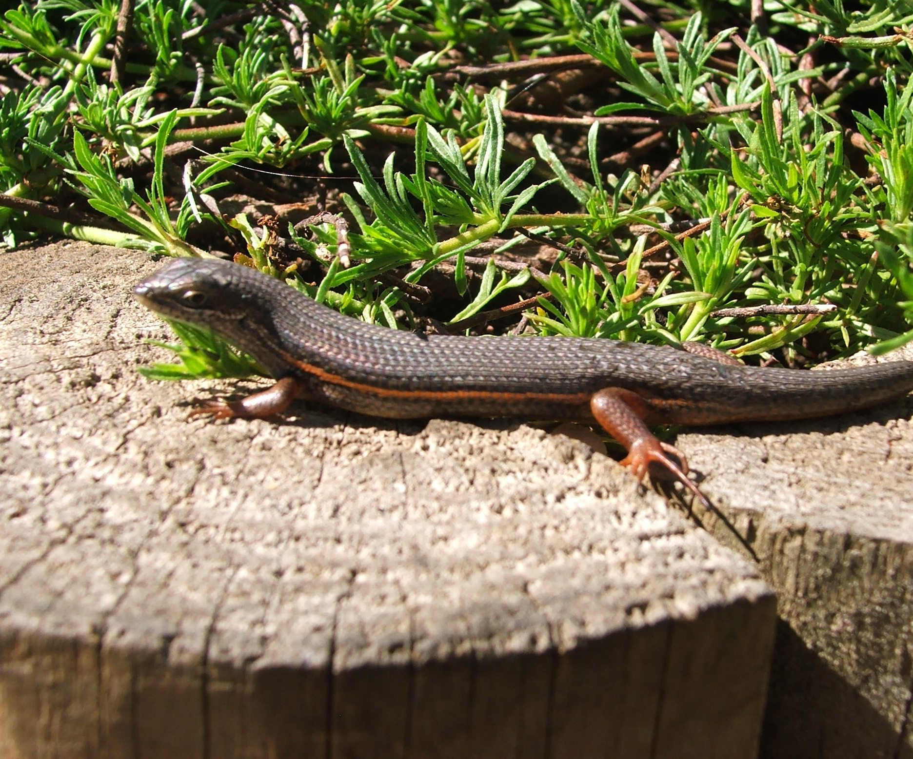 Red sided Skink. Photo taken in Cape Town garden.